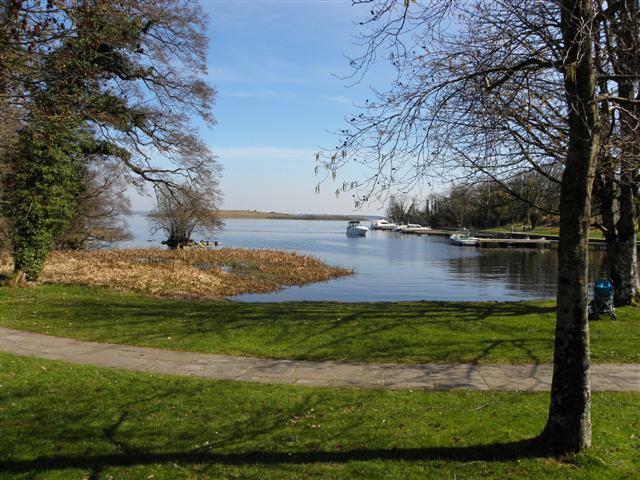 Lusty Beg Looking east